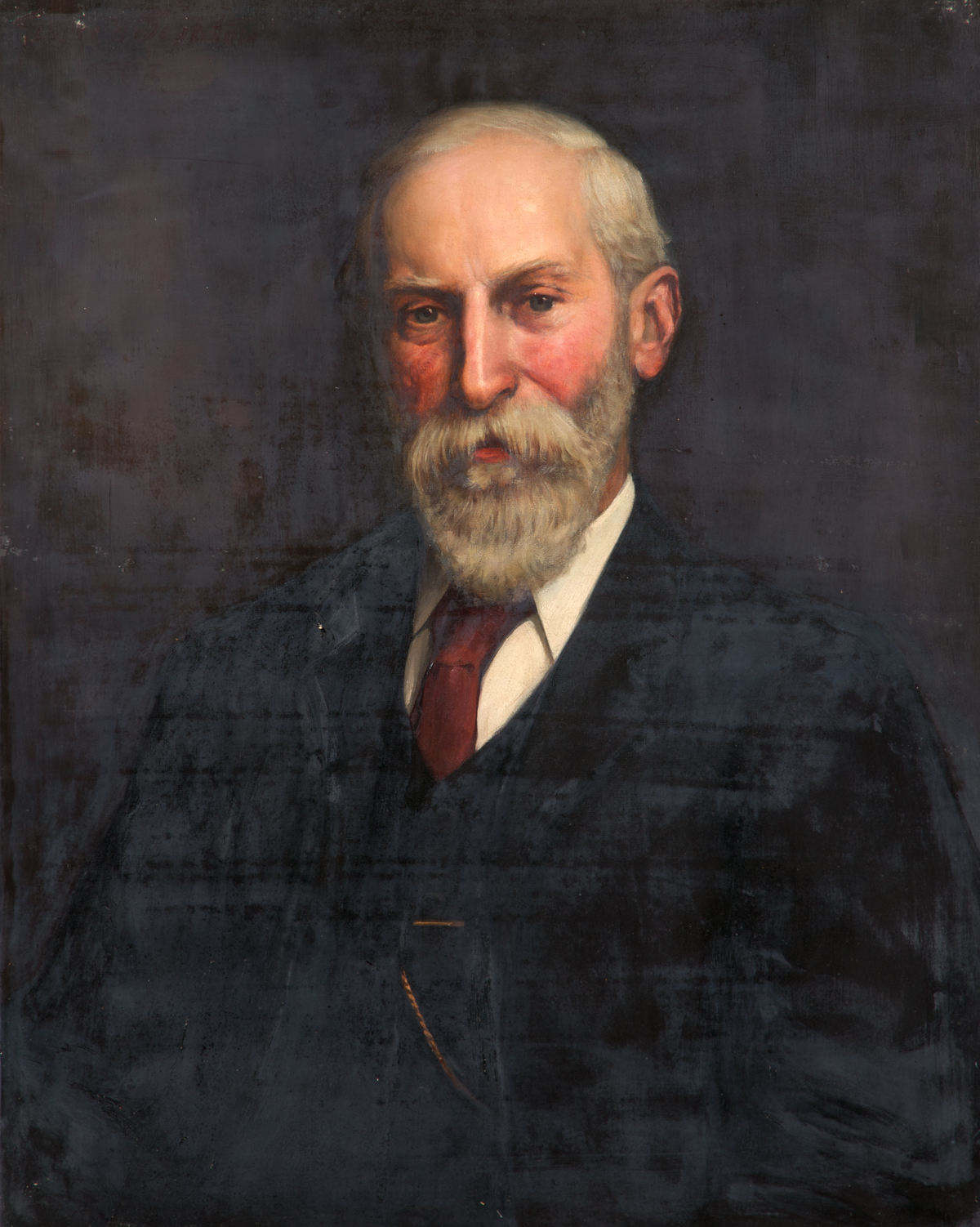 Portrait of Edward Stanley, 4th Baron Stanley of Alderley (1839–1925), English politician and peer.